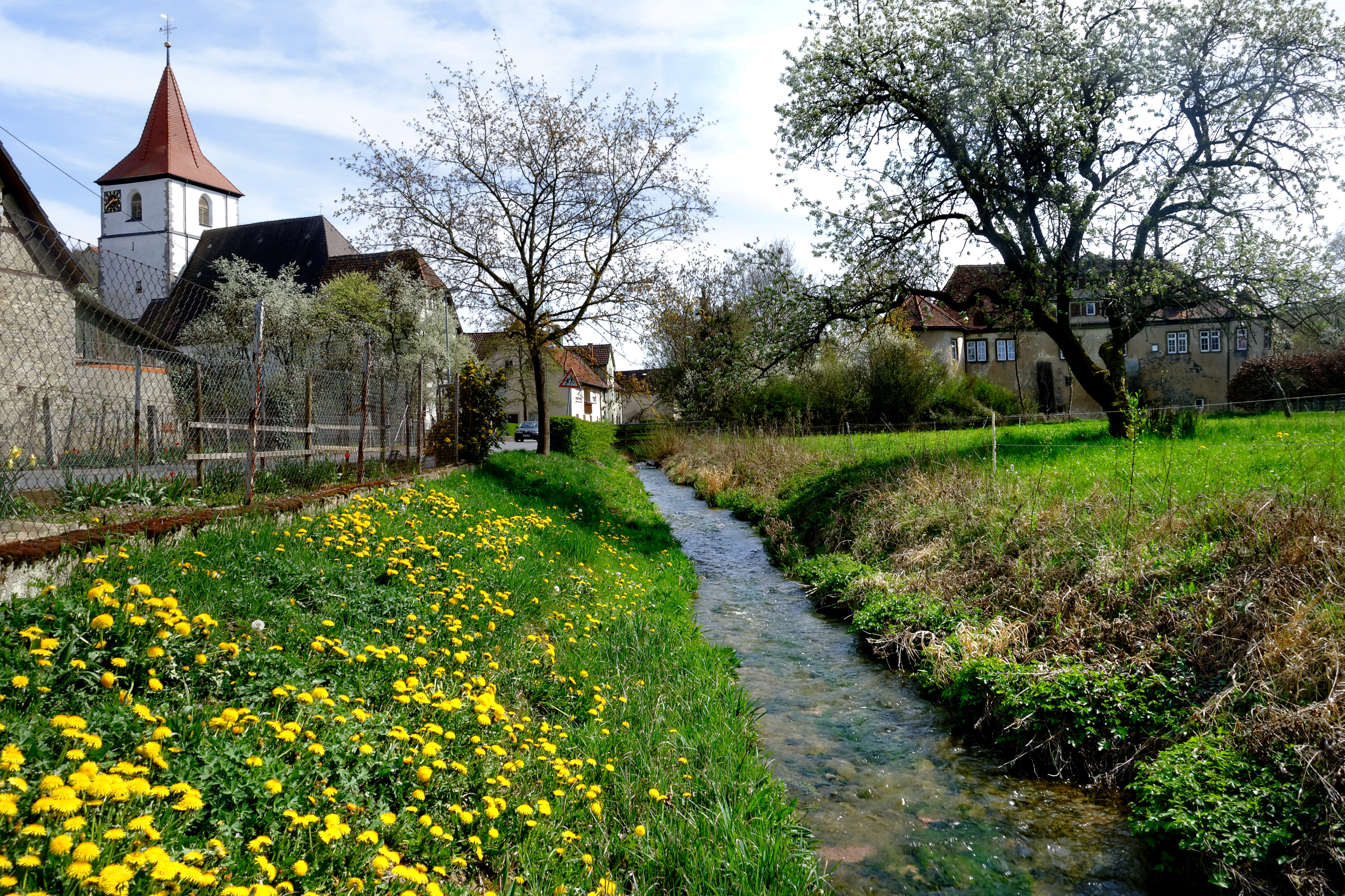 Wachbach, an idyllic place in the eponymous Valley.